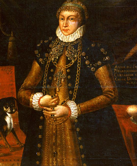 Anna von Mecklenburg-Güstrow